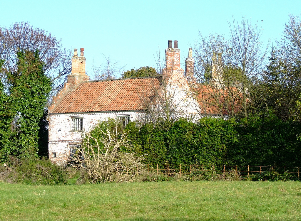 Old Clee, Grimsby